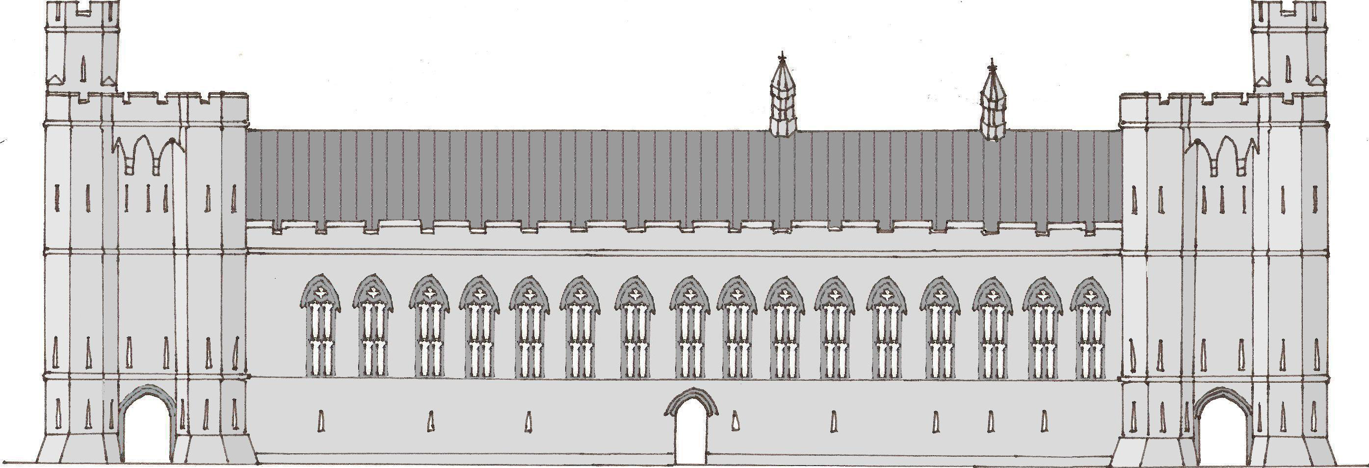 The 14th century frontage of the palace at Windsor Castle. Based on pictures and text in Nicolson's "Restoration", p.119, and Brindle and Kerr's "Windsor Revealed", pp.40-1, in turn based on Hollar's quadrangle sketch (see Mackworth-Young, "Windsor Castle", p.20). Hand-drawn, with retouching using digital aids.